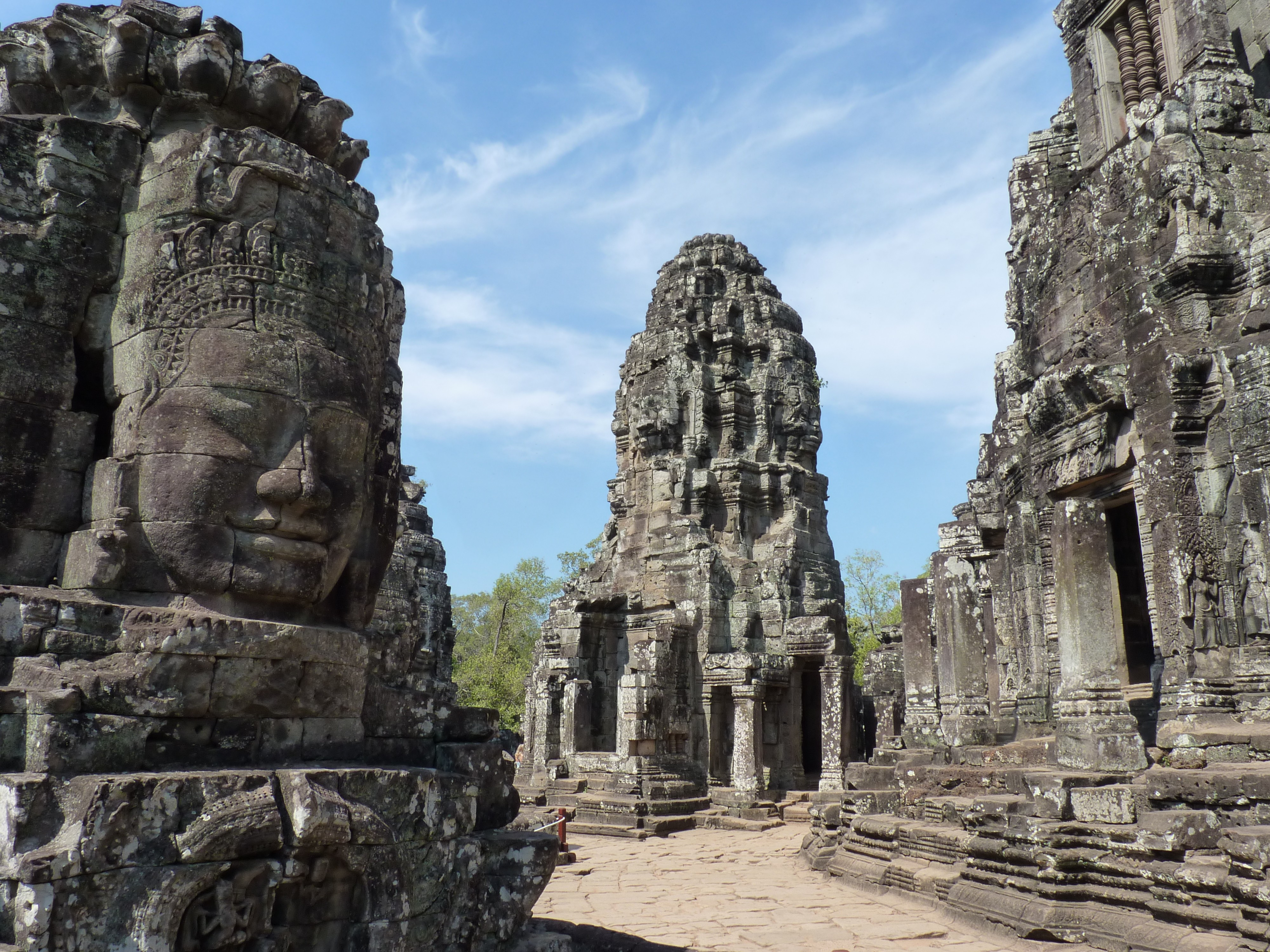 Stone faces in Bayon, Angkor